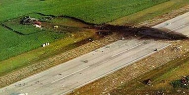 Photos of UAL 232 Initial Touchdown Area